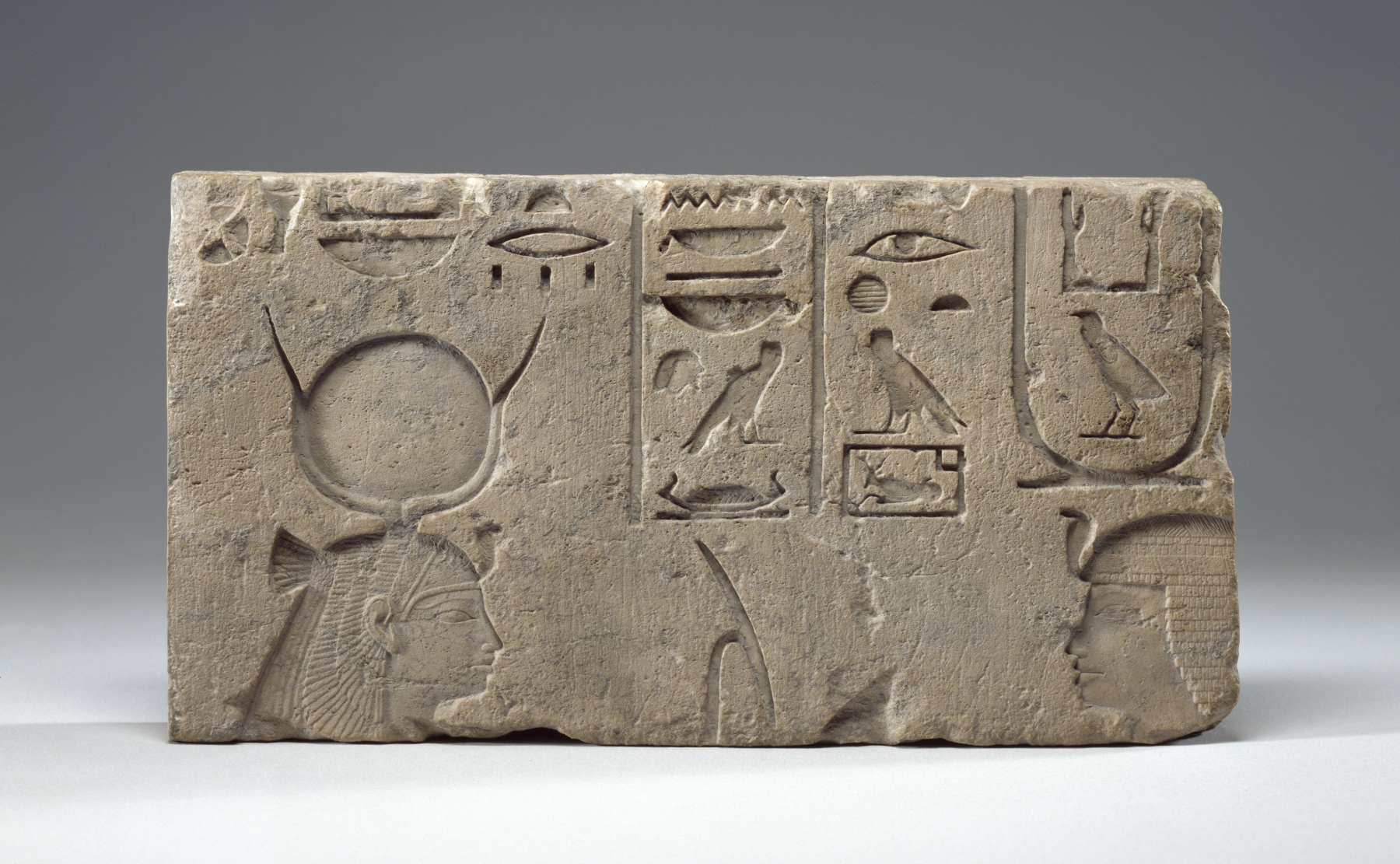 This rare relief shows King Necho II facing the cow-goddess Hathor, who wears a vulture headdress topped by a sun-disk and cow horns. The inscription above the goddess may once have read, "I grant you every country in submission."